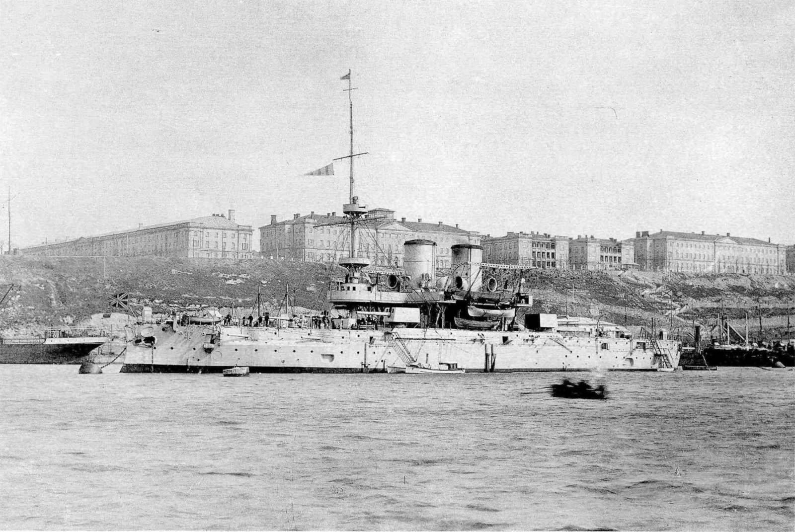 Imperial Russian battleship Sinop in Sevastopol.